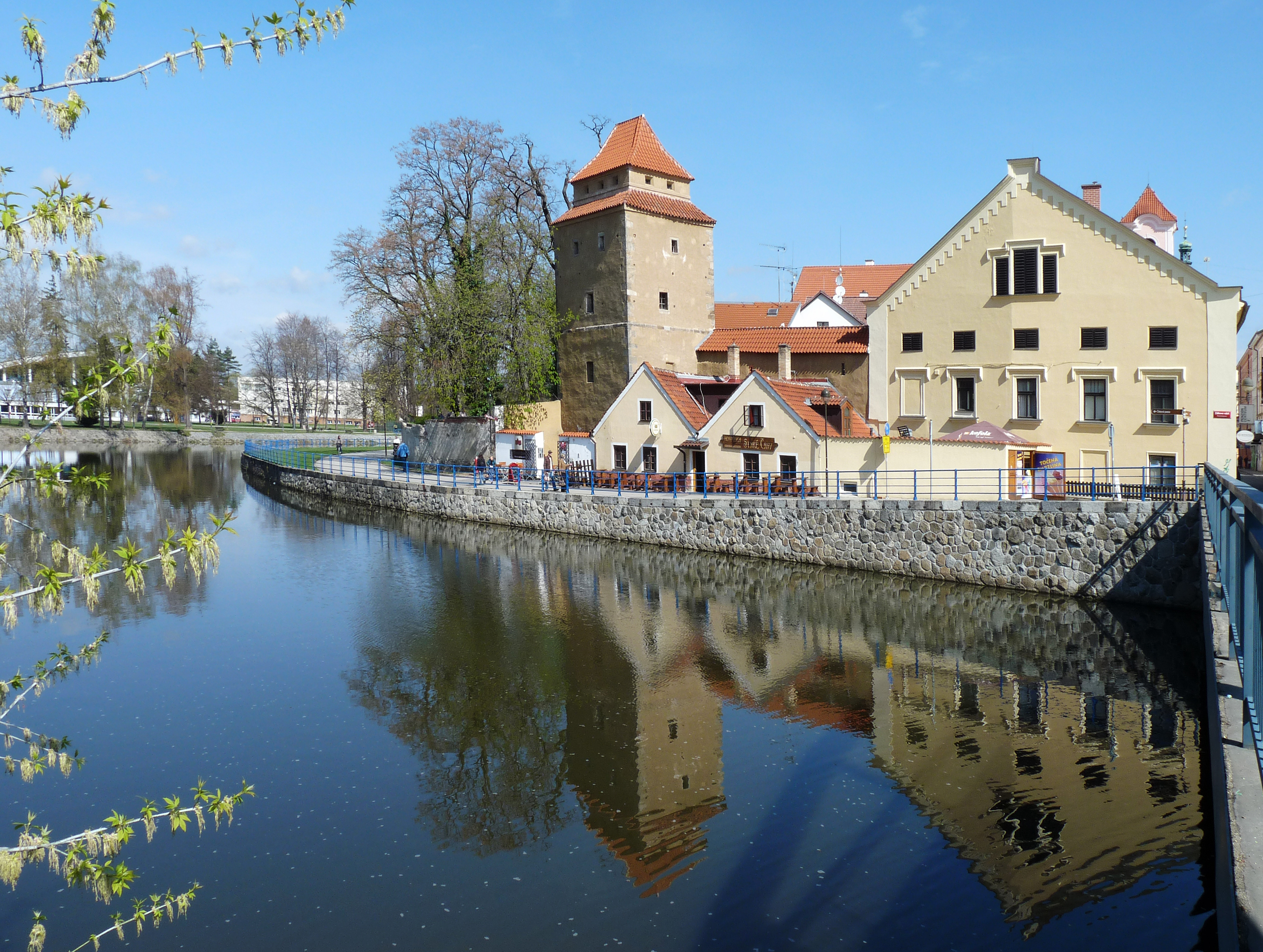 Iron Maiden Tower at the blind arm of the river Malše in České Budějovice, Czech Republic.